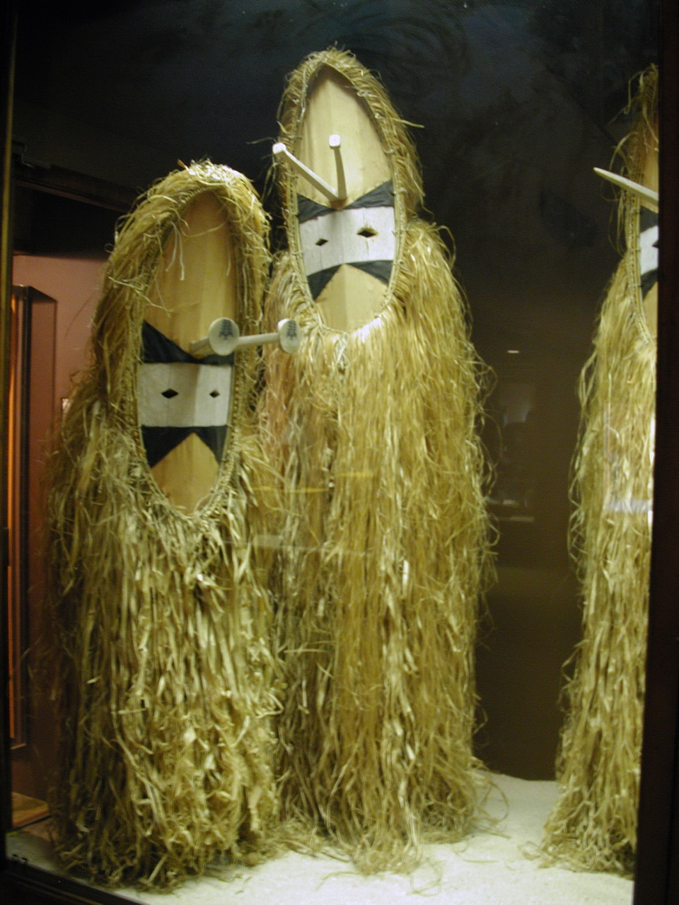 Wood, pigment material. Origin Vanikoro, Solomon Islands, Melanesia. Bishop Museum, Hawaii